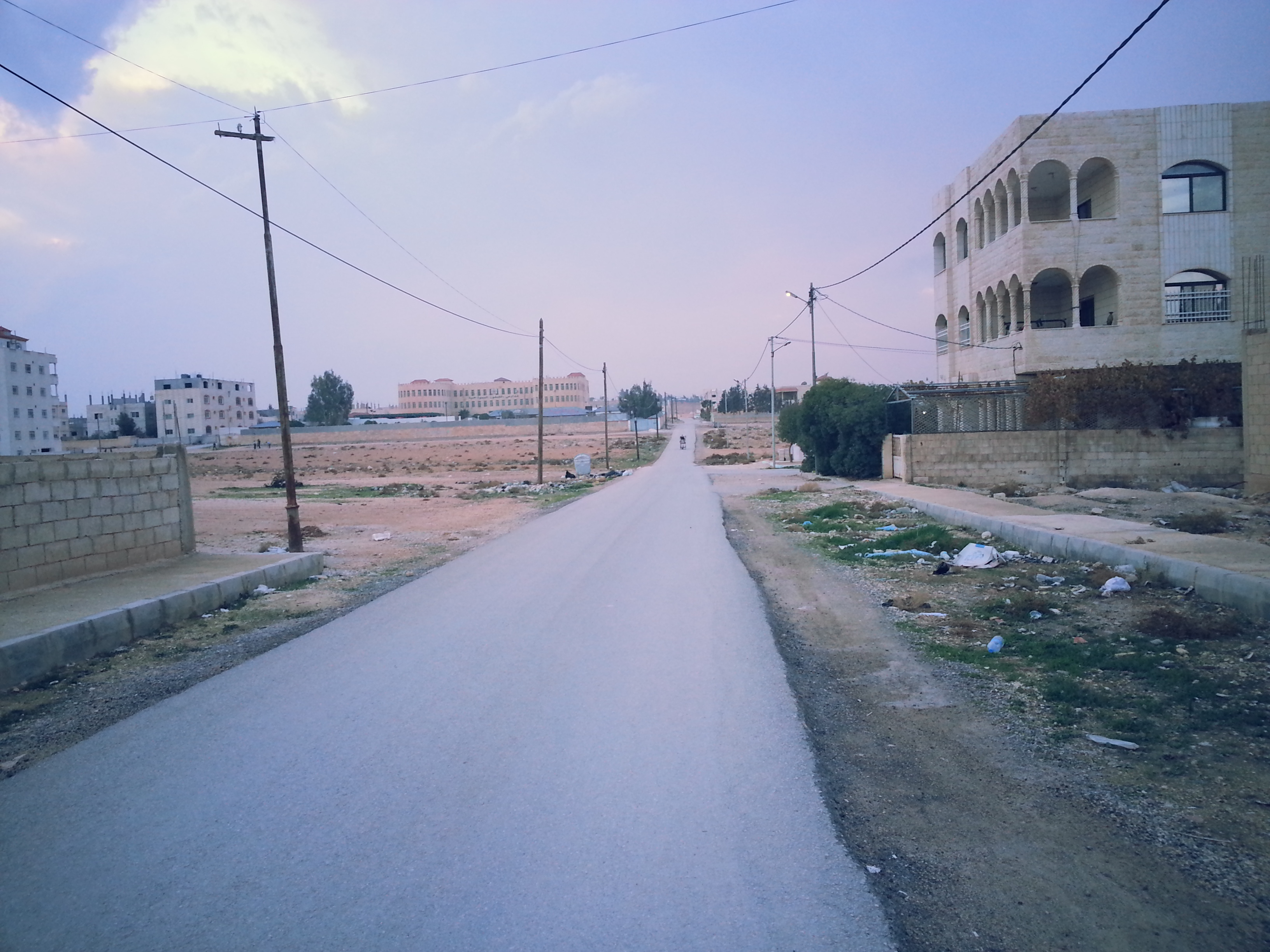 Flowers neighborhood #3